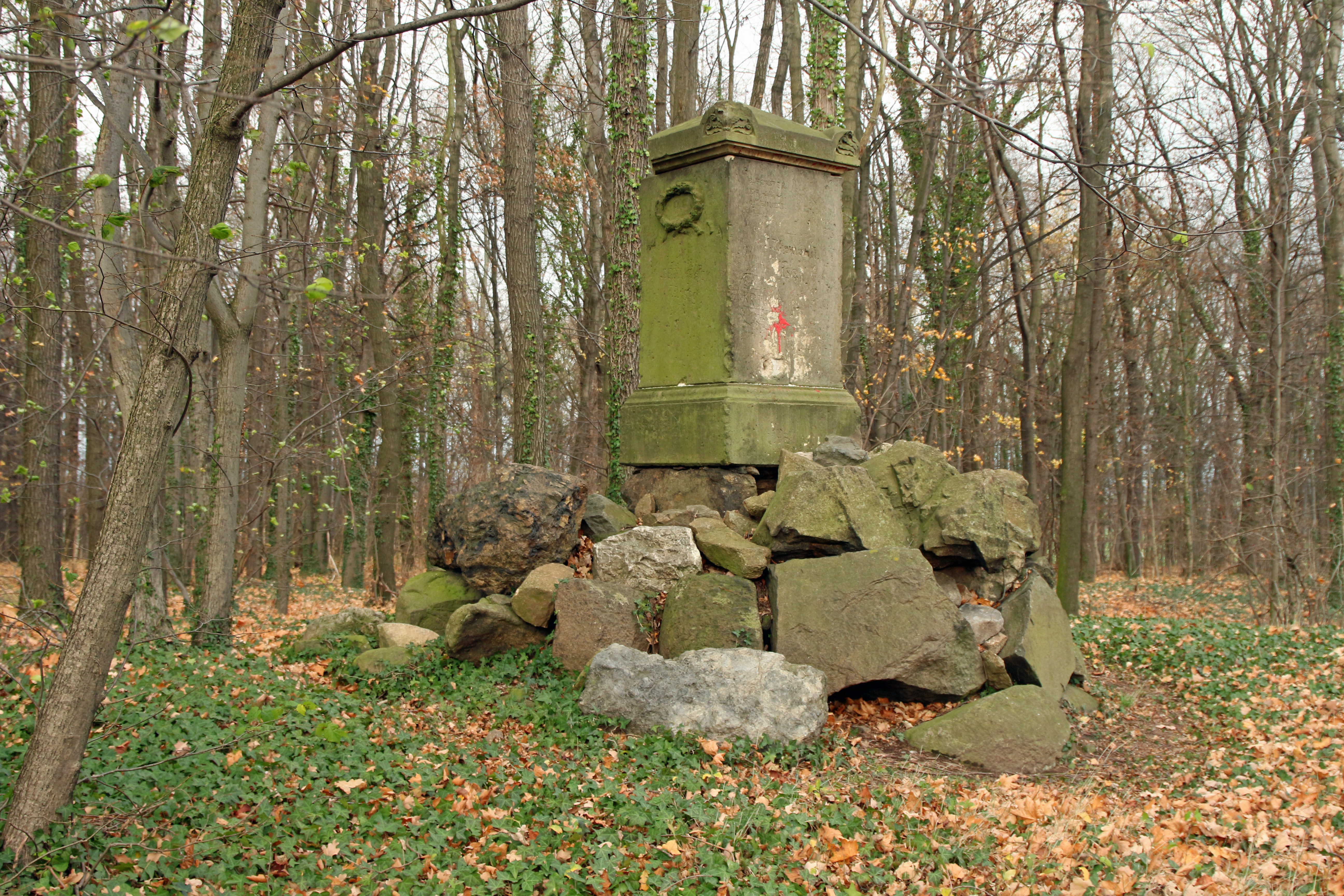 Nostitz (Weissenberg) monument at Monumentsbusch hill